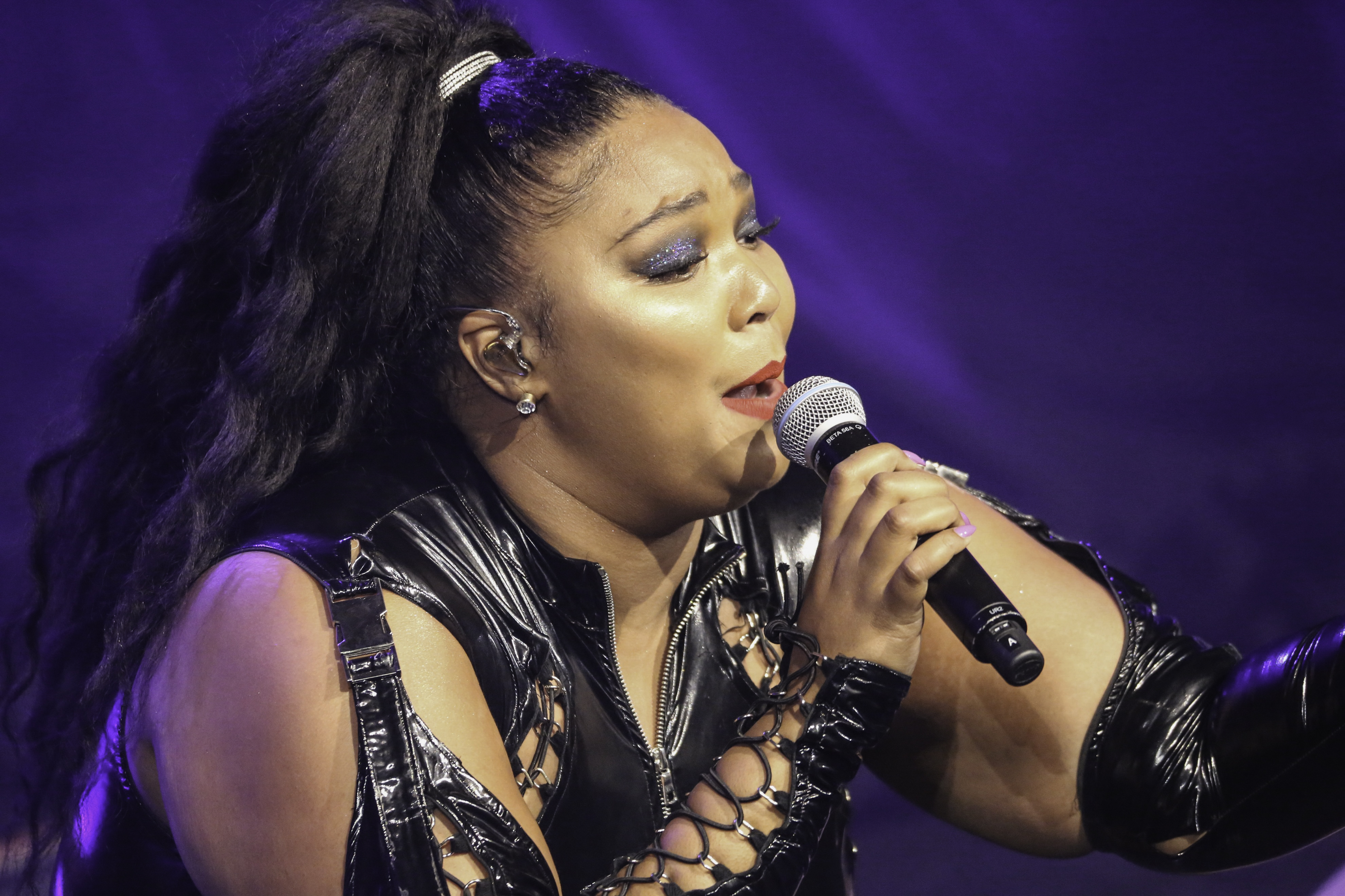 Lizzo - Palace Theatre - St. Paul